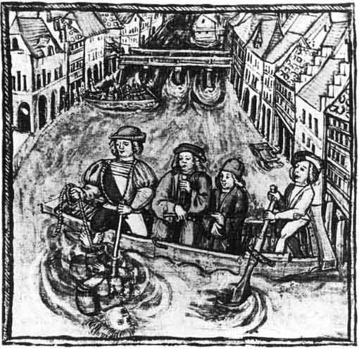 Miniature from the Lucerne chronicle of 1513, fol 80v. Note: In spite of the image title, this is not a "water ordeal" but simply an instance of corporeal punishment, called schwemmen. In 1470, the boy Hans Hegenheim was convicted for theft and as punishment was thrown into the Reuss River bound with a rope, and pulled behind a boat for a fixed distance (from Peterskapelle to Reusbrücke). He survived, and was considered to have atoned for his crime, and went on to live a long life.